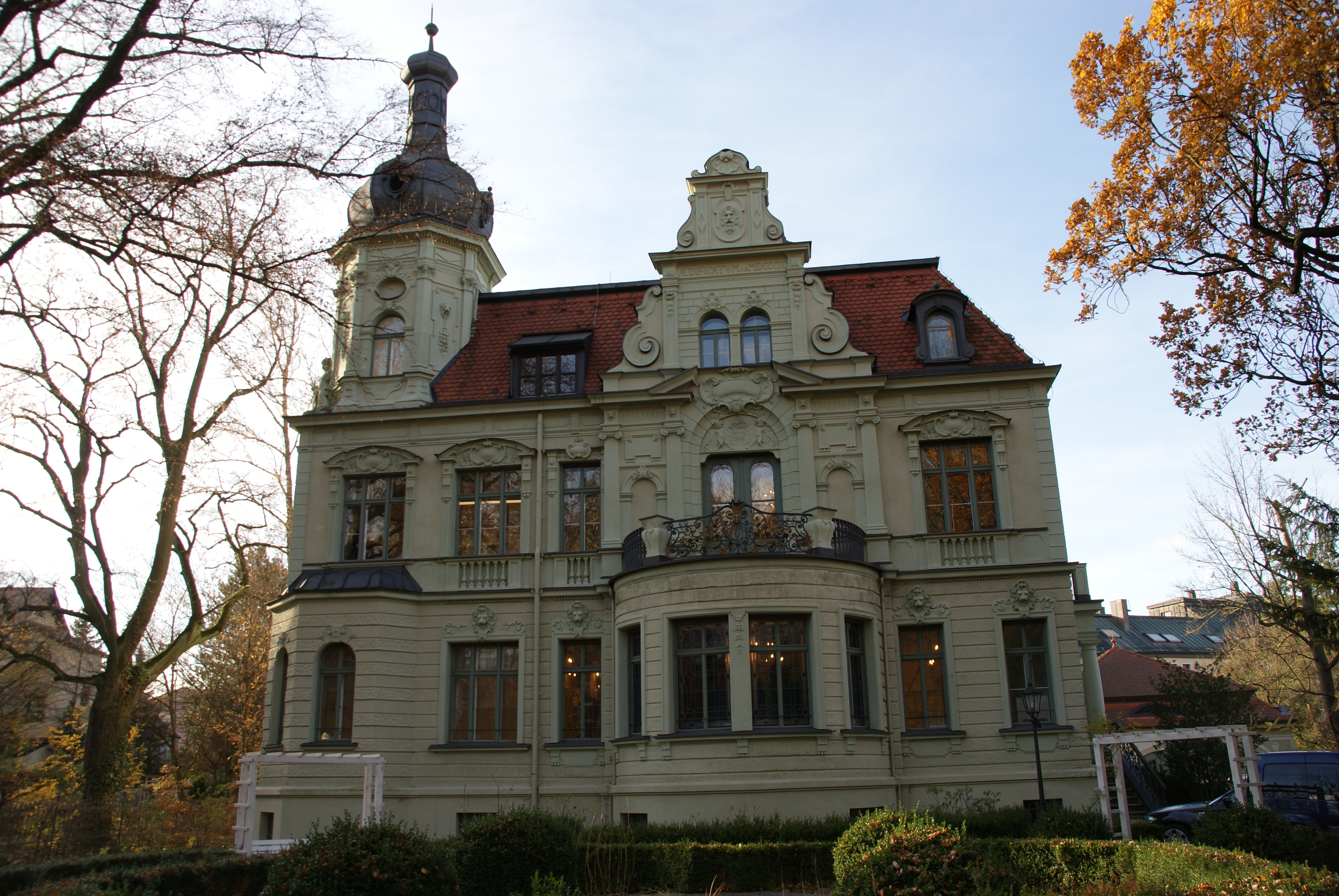 Villa Weinschenk, built 1899 for the banker Max Weinschenk by Joseph Koch